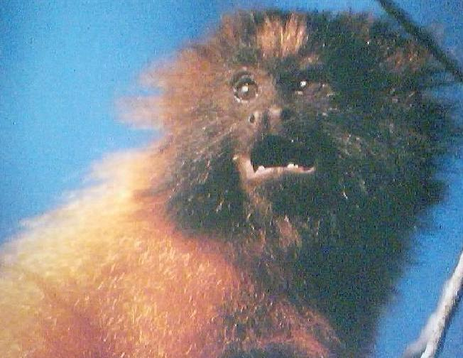 Golden Lion Tamarin, Pontal do Paraná, Brazil. Photo by Ângelo Antônio Leithold.